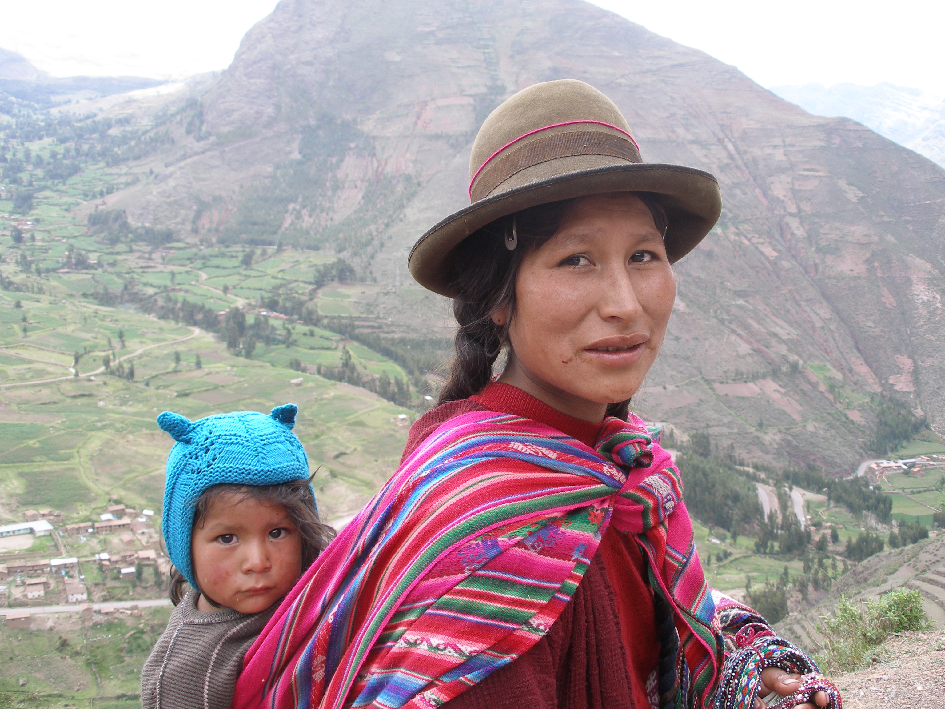 An Amerindian woman and child in the Sacred Valley, Andes, Peru.